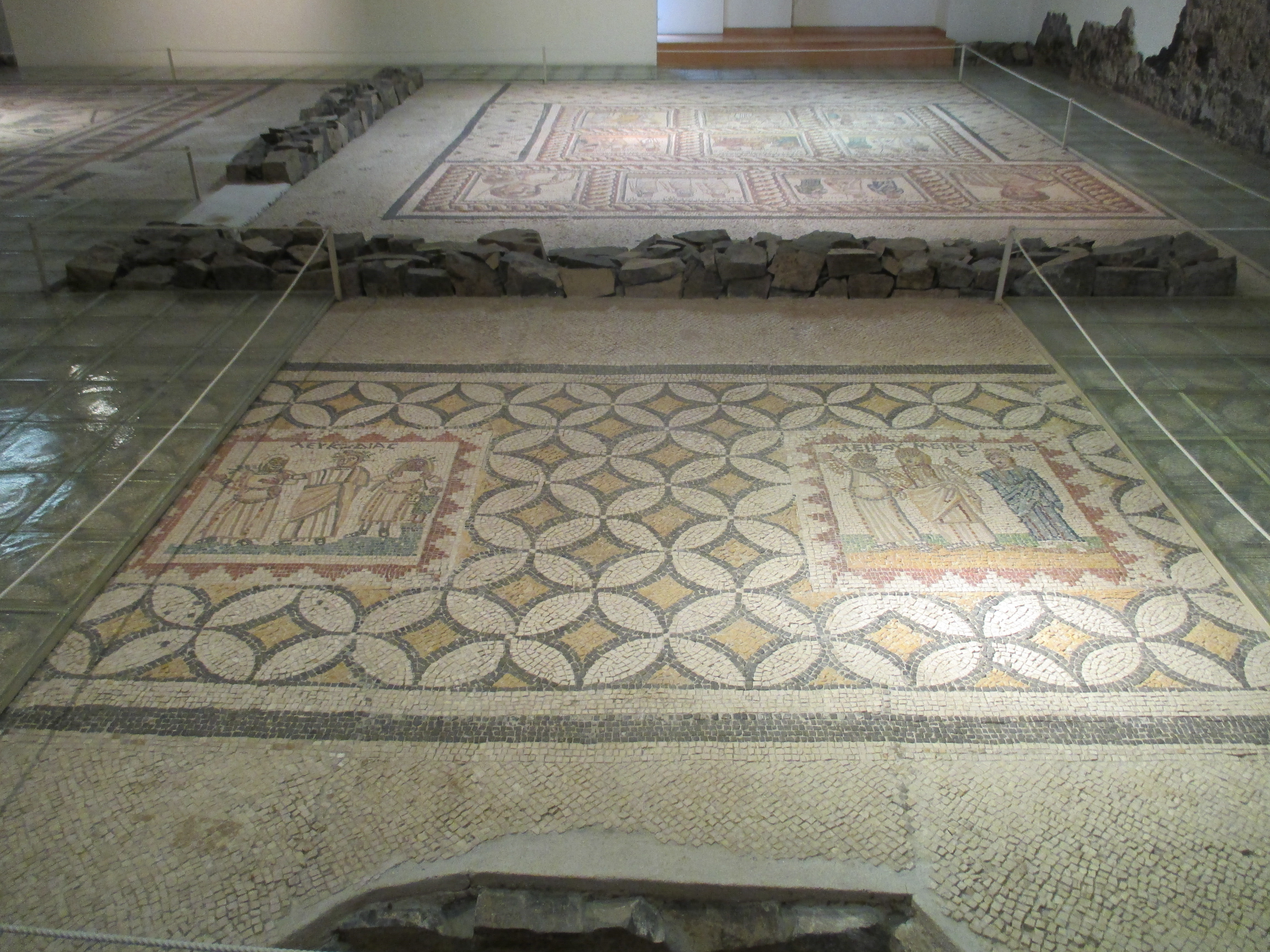 Archaeological Museum of Mytilene, mosaics from the House of Menander.